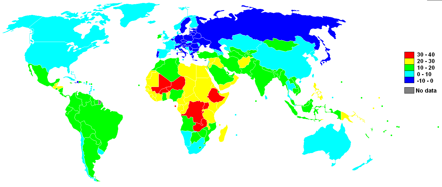 Natural increase per 1000 population, as per CIA Factbook 2010